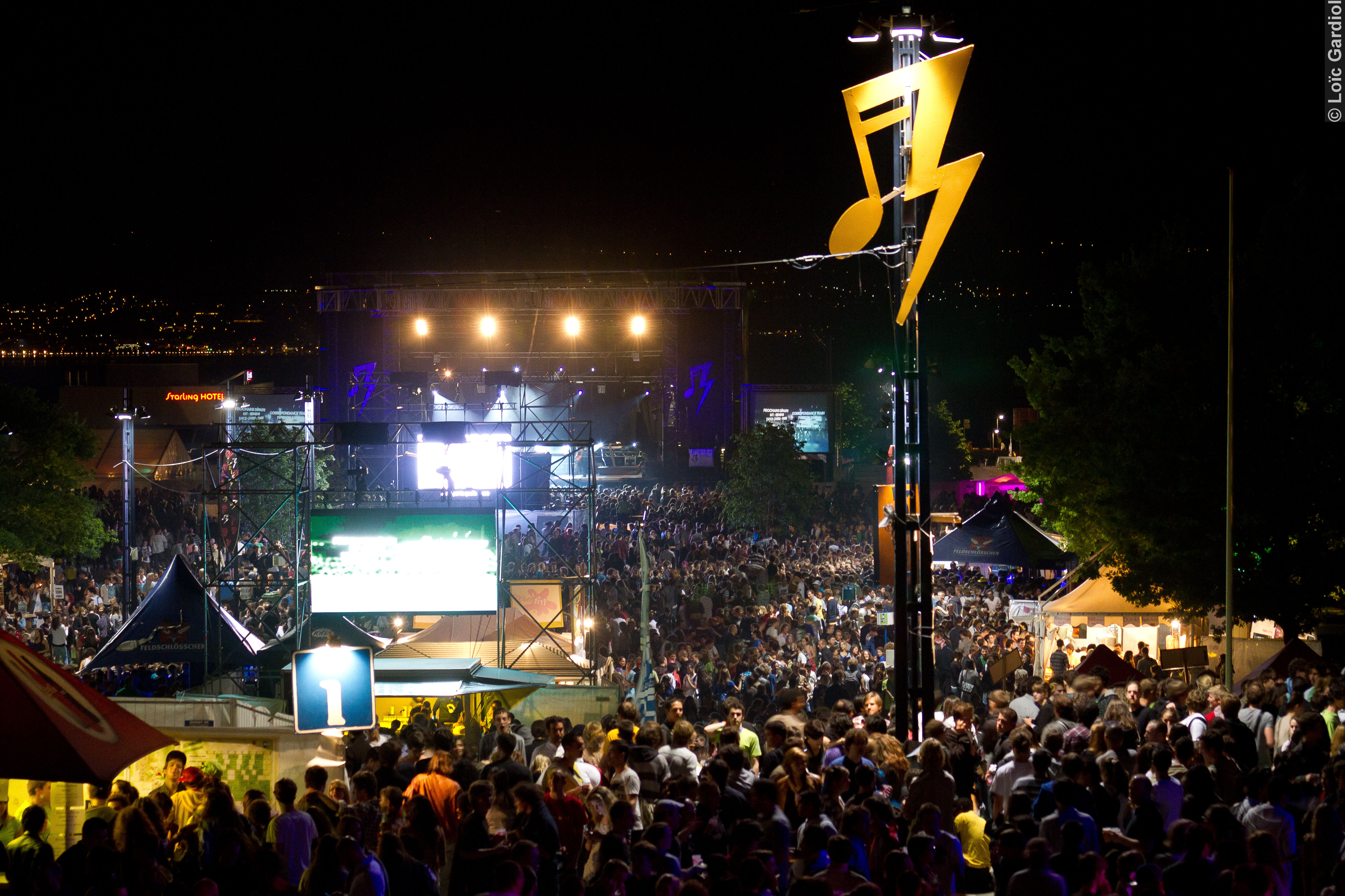 View of the Grande Scene during the 2011 edition of the Balelec Festival, around midnight. Taken on Friday May 13, 2011 on the EPFL campus in Lausanne, Switzerland